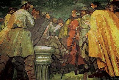 Installation of the Duke of Carantania